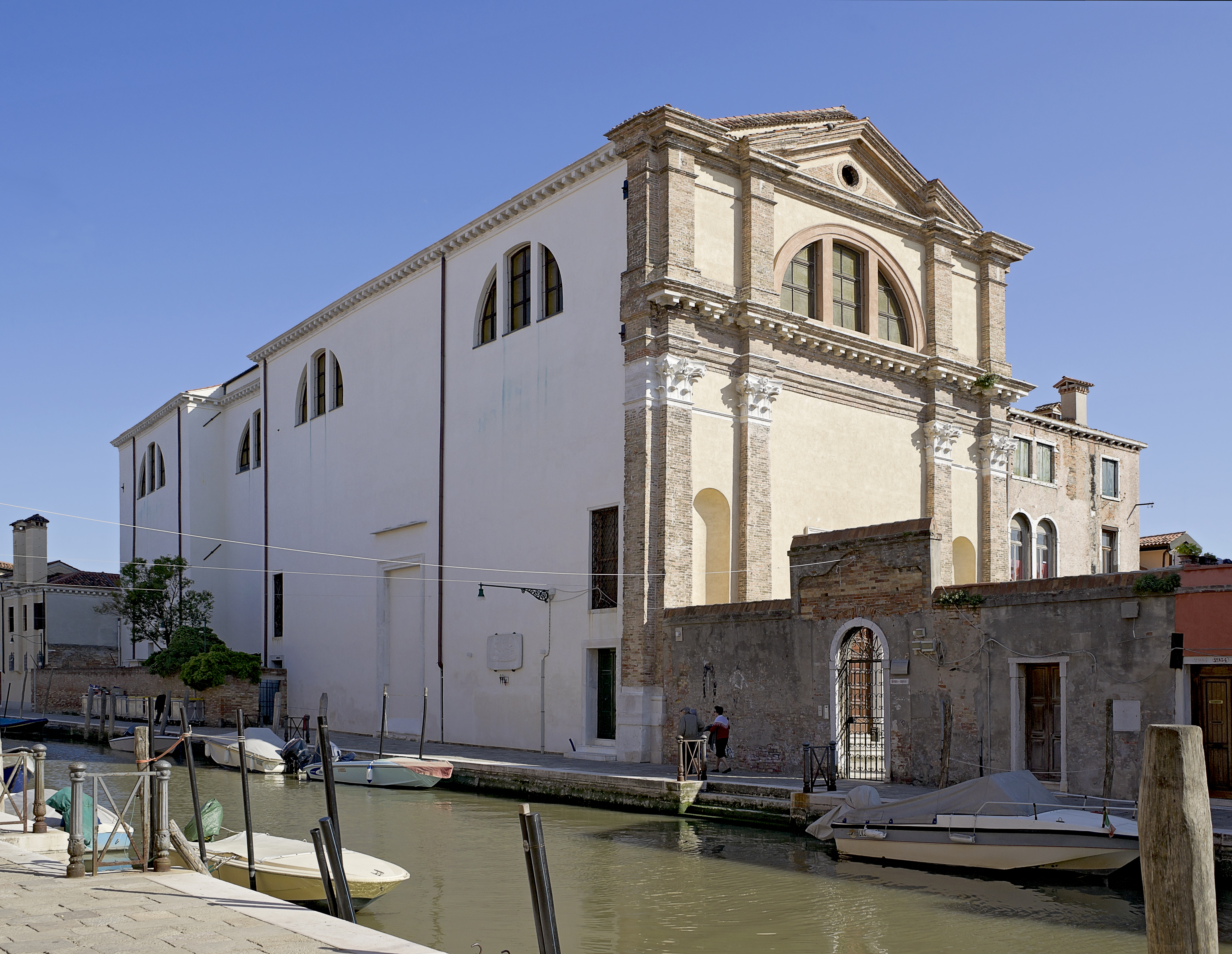 Church “San Girolamo”, Venice